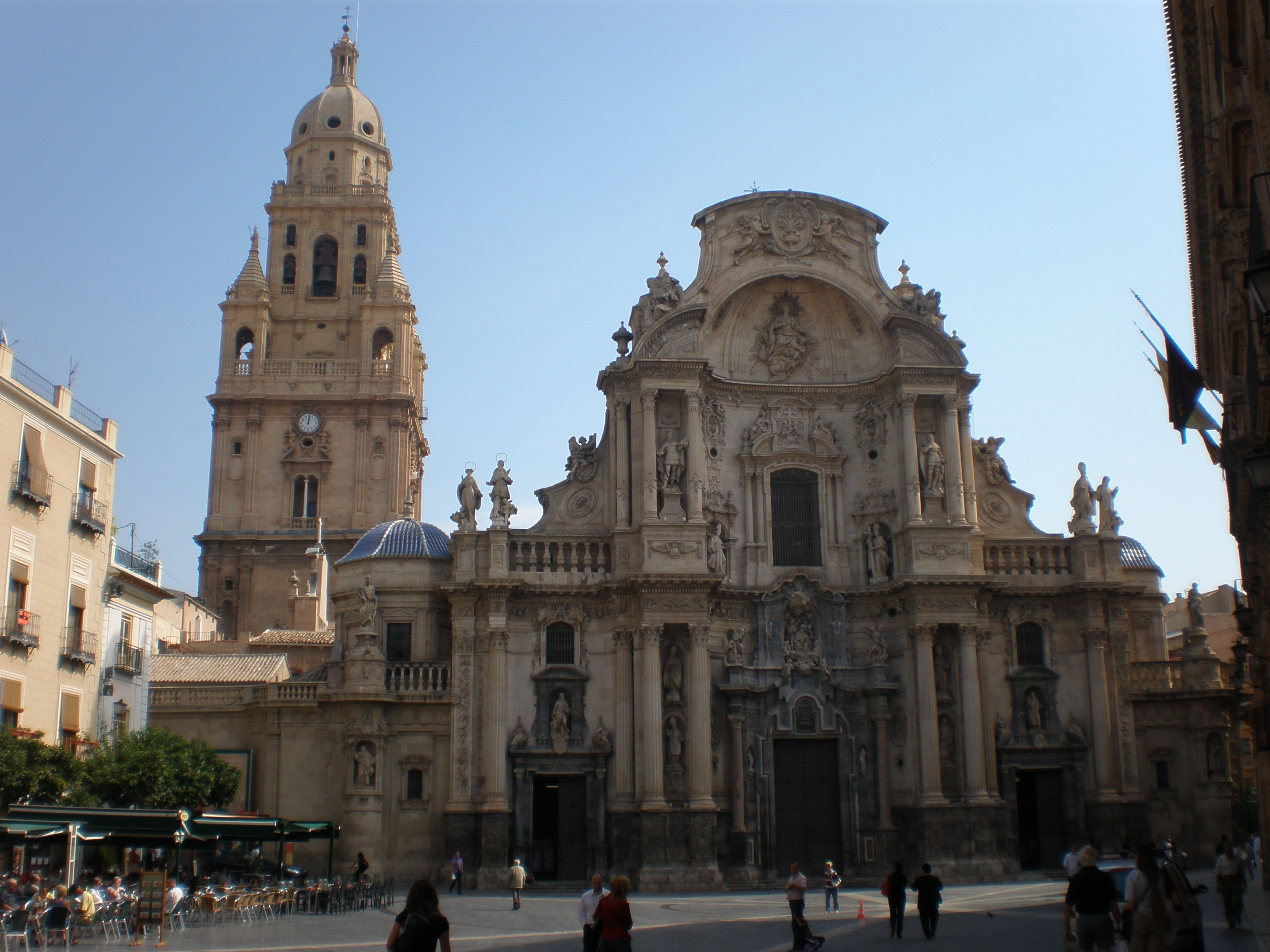 Saint Mary's Cathedral in Murcia (Spain), Diocese of Cartagena.